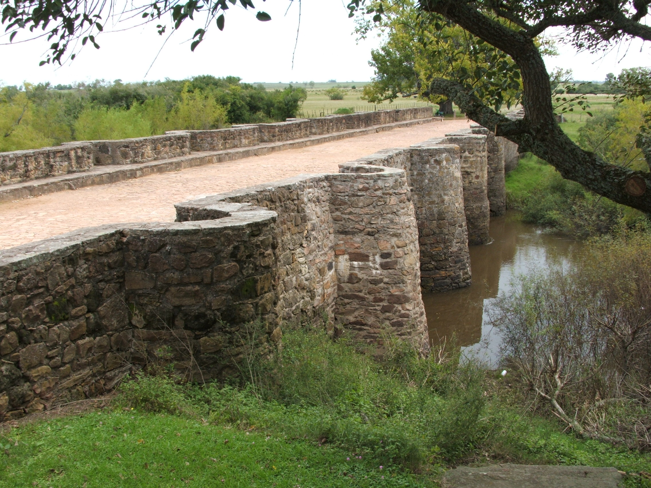 The bridge at Posta del Chuy near Melo, Uruguay